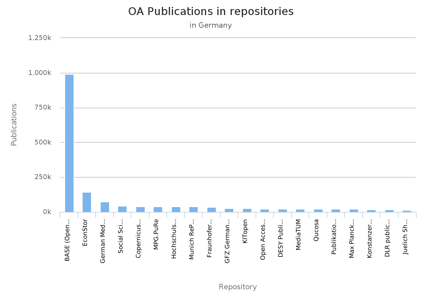 Bar graph describing open access to scholarly communication in Germany